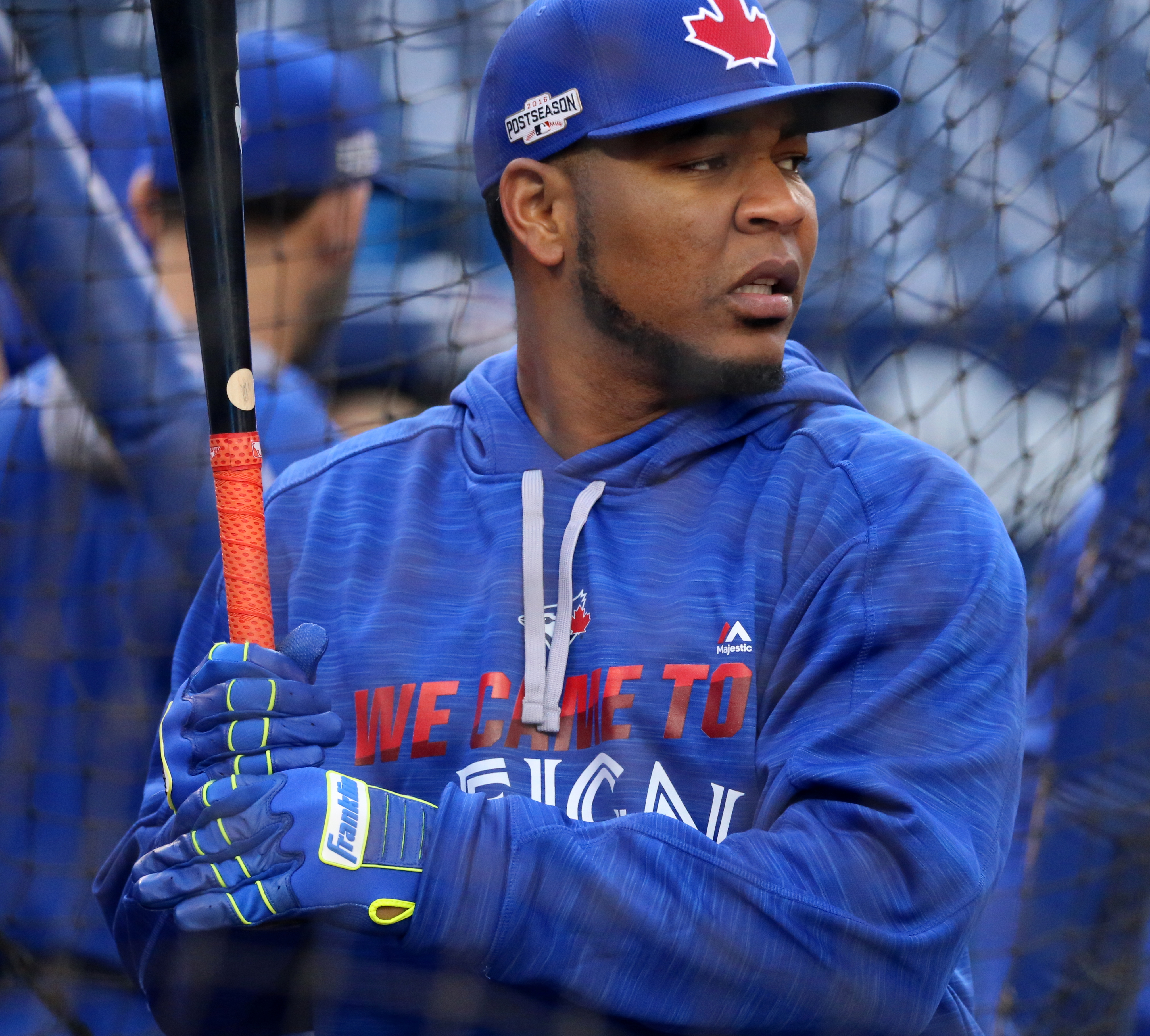 Edwin Encarnación takes batting practice before the 2016 American League Wild Card Game.